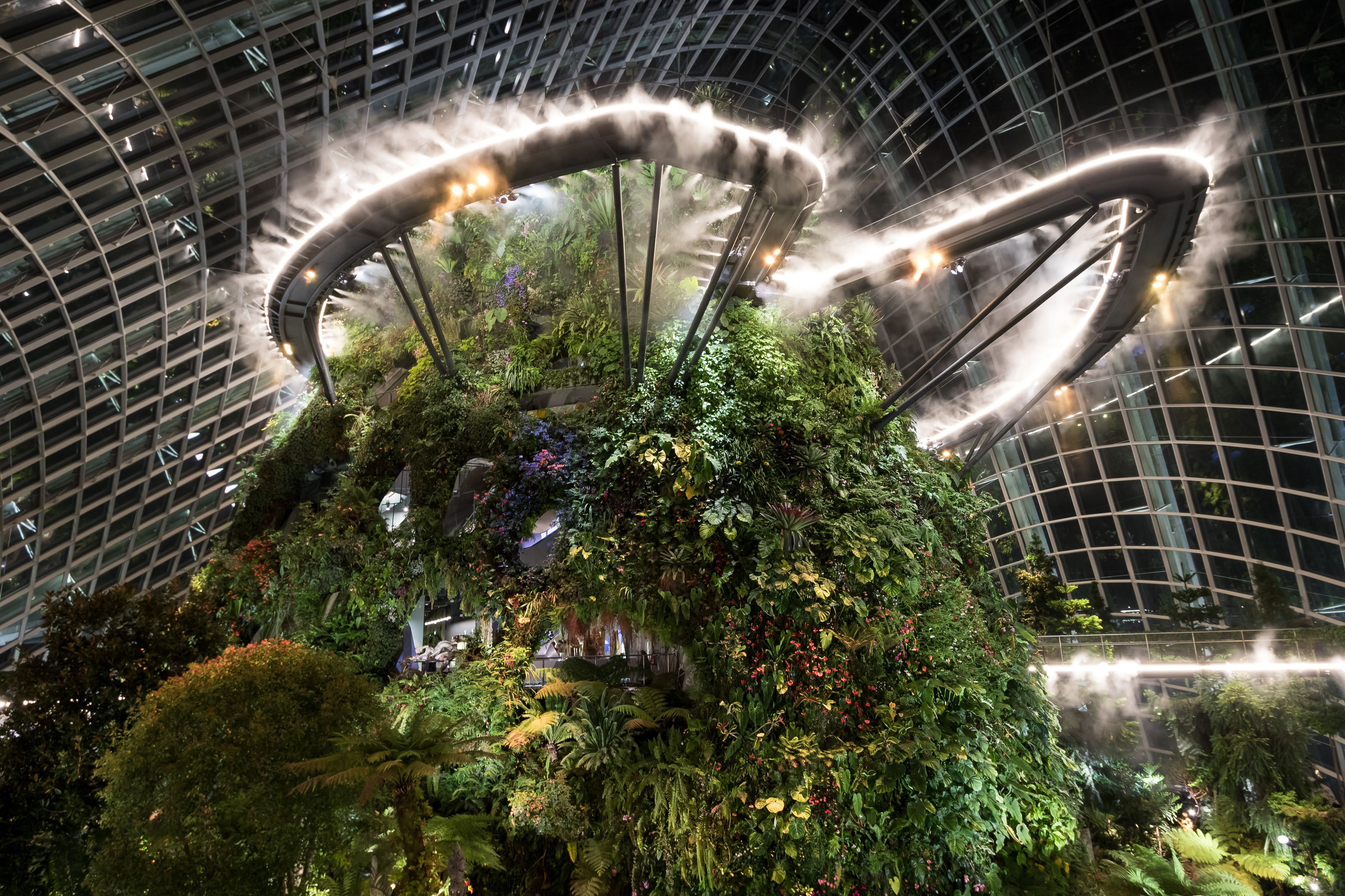 Cloud Forest, Gardens by the Bay, during the daily misting at 8pm.